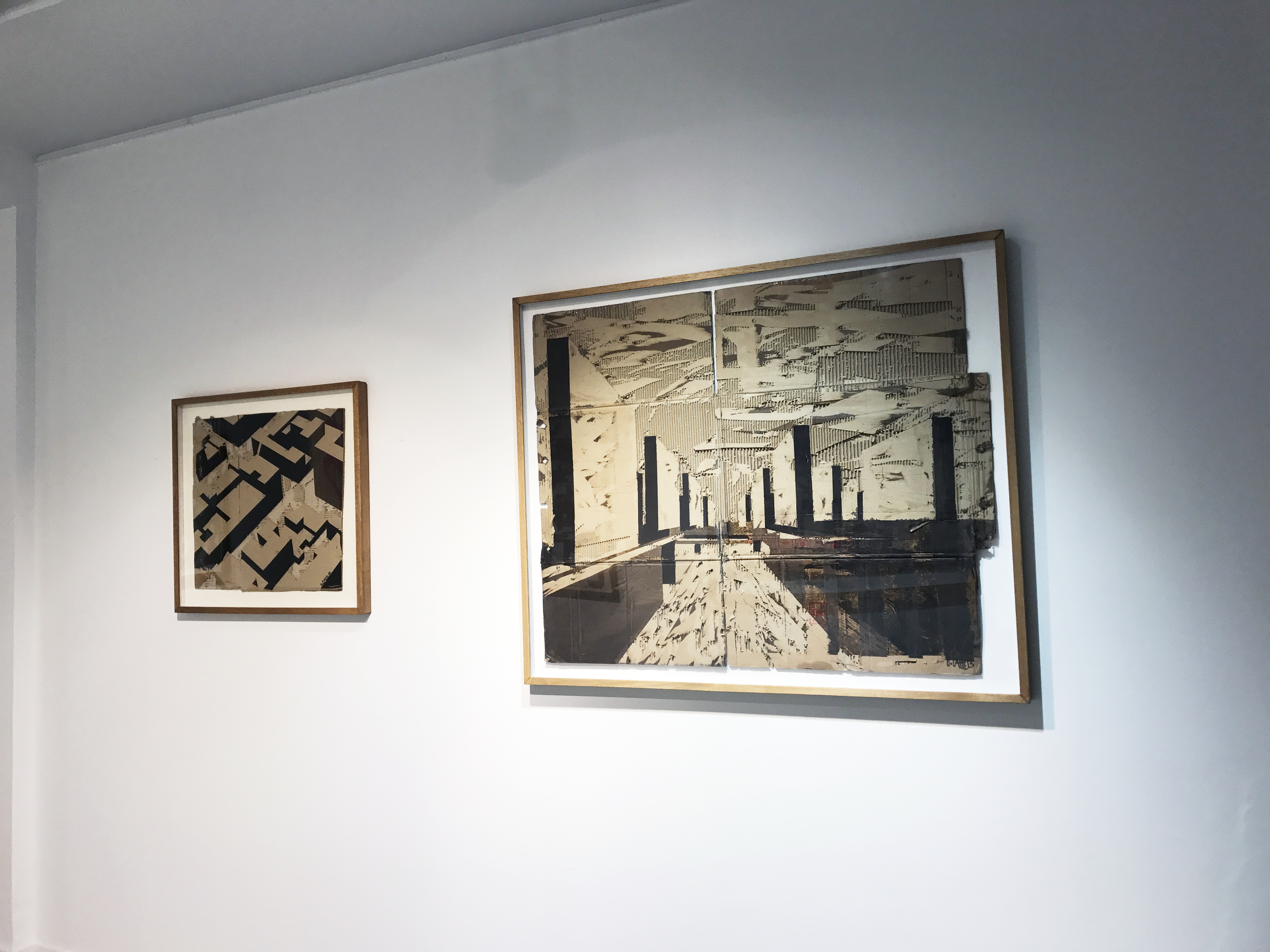 Olivier Catté - view of the exhibition at Galerie Lazarew Paris, October 2016